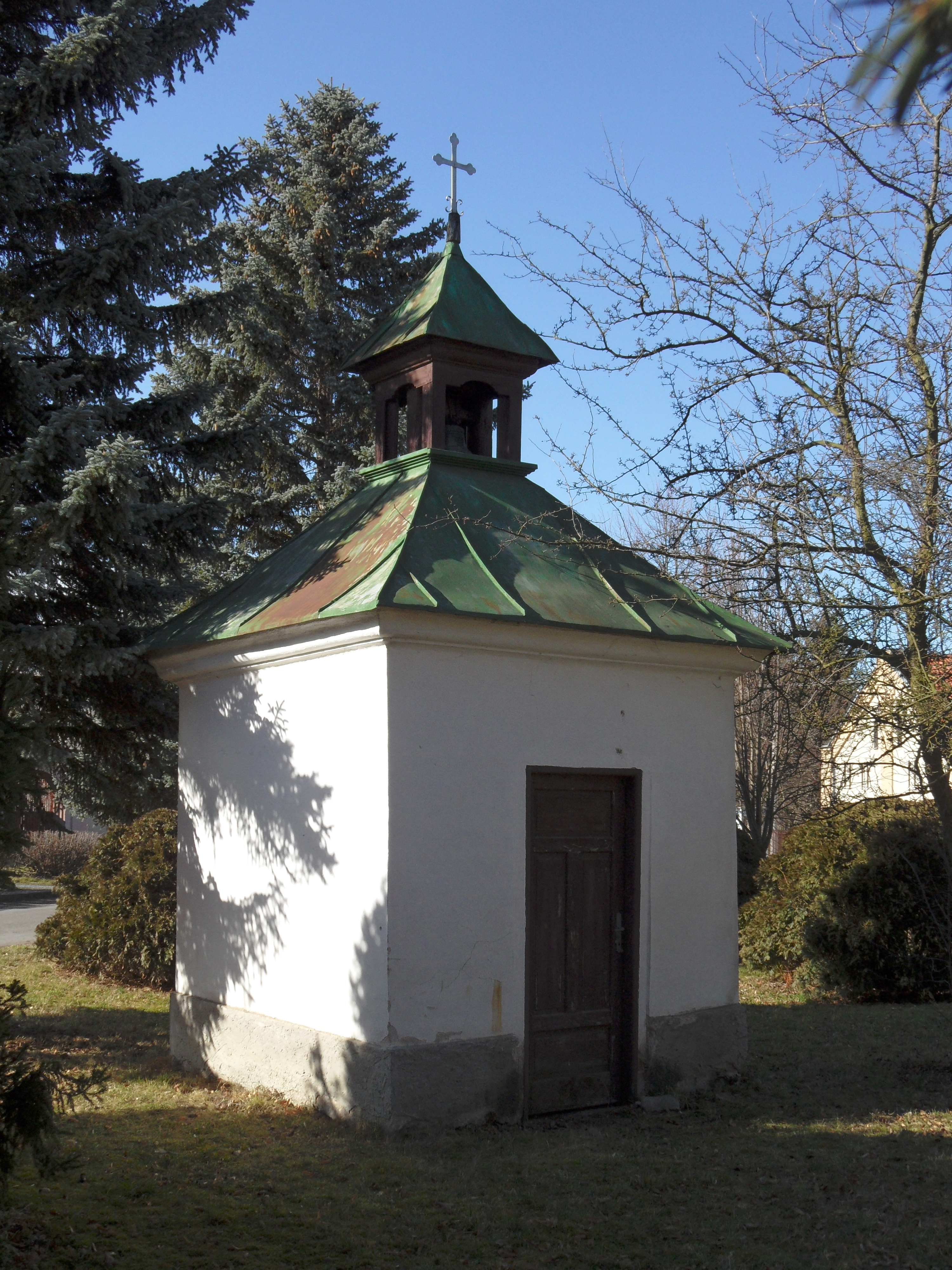 Hostovlice H. Small Chaple at Village Square, Kutná Hora District, the Czech Republic.